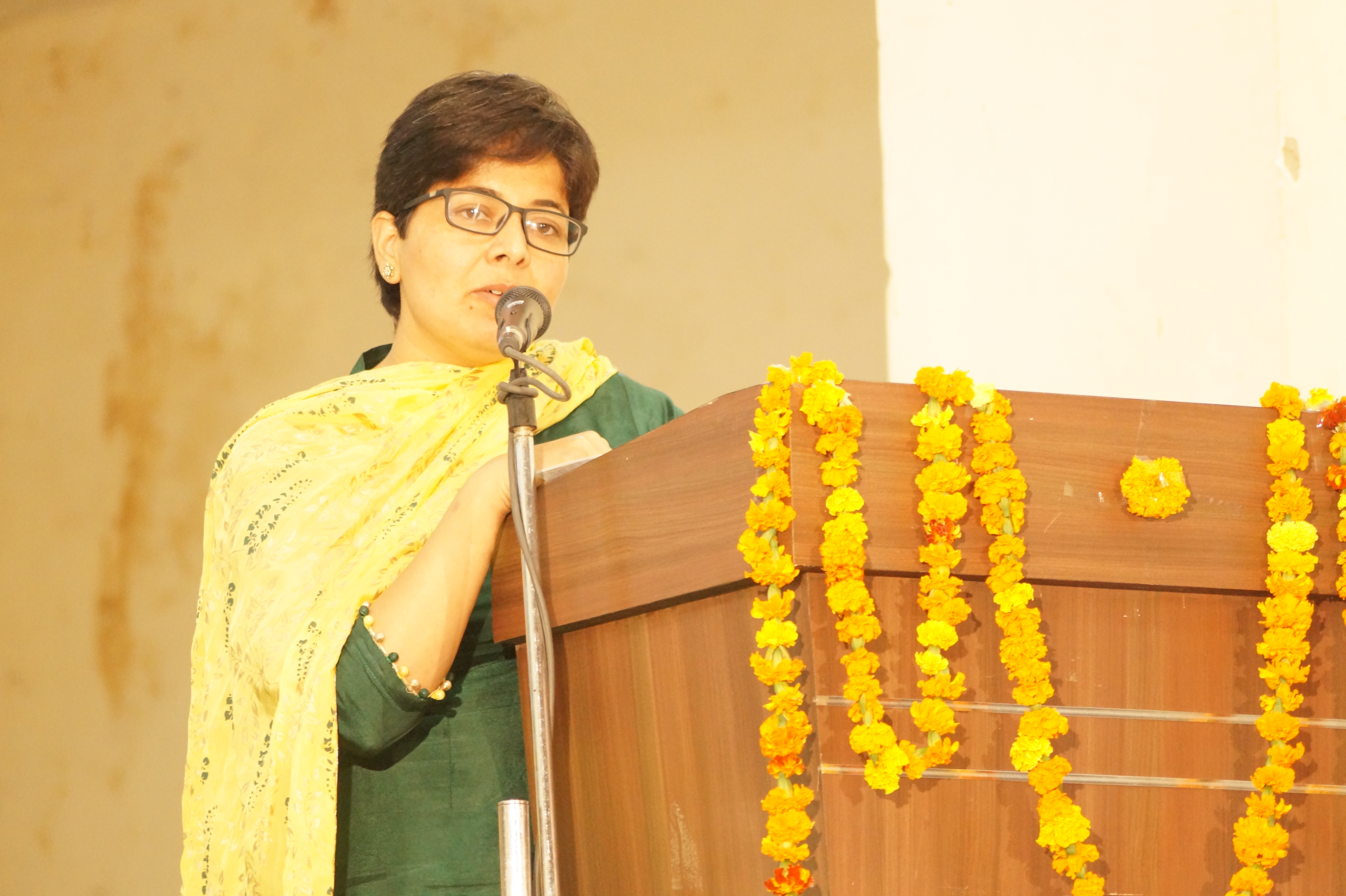 Punjabi poetess